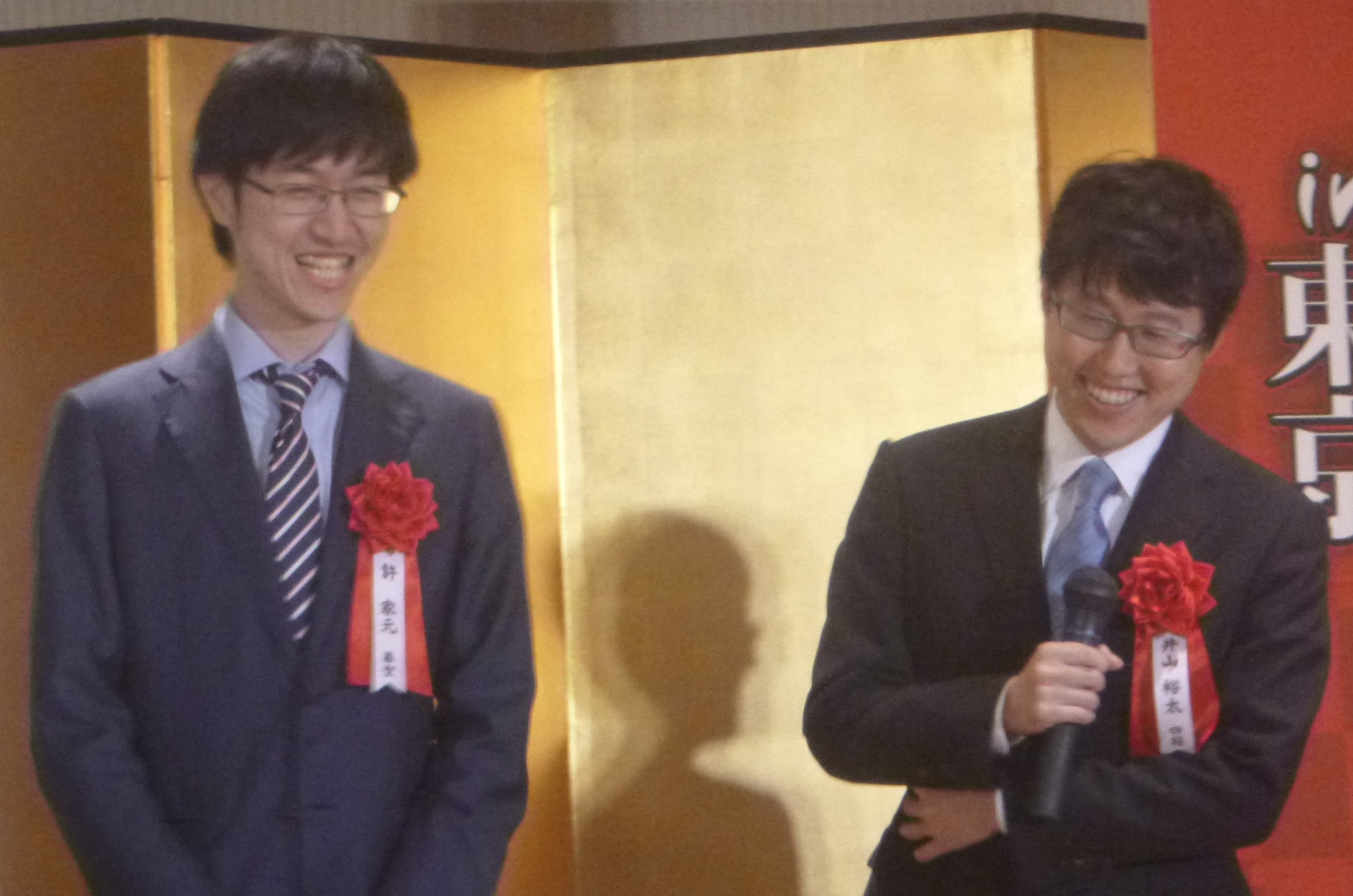 Taiwanese go player Hsu Chia Yuan (left) and Japanese go player Yūta Iyama (right) at the talk session of Hankyū Nōryō Go Festival in Minato, Tokyo, Japan.